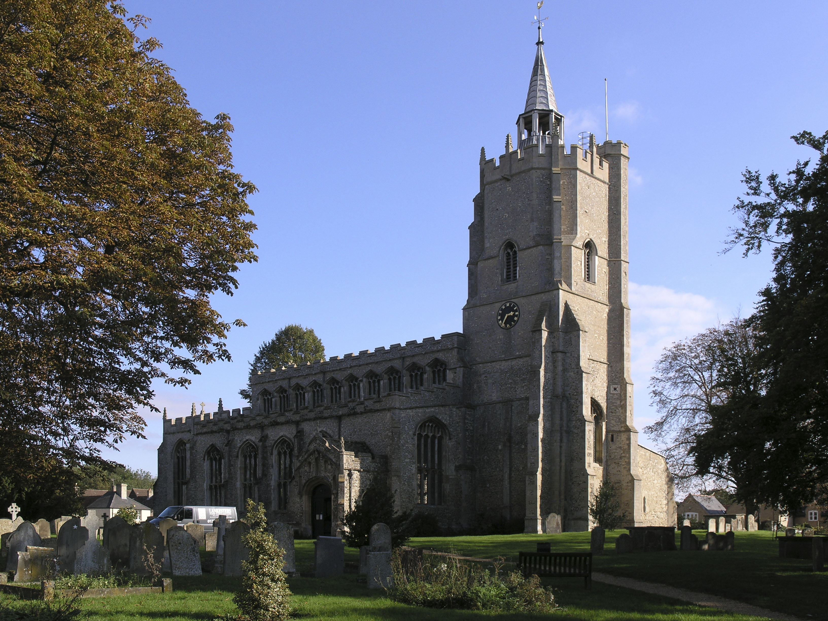 St Mary the Vuirgin Church, Burwell, Cambridgeshire